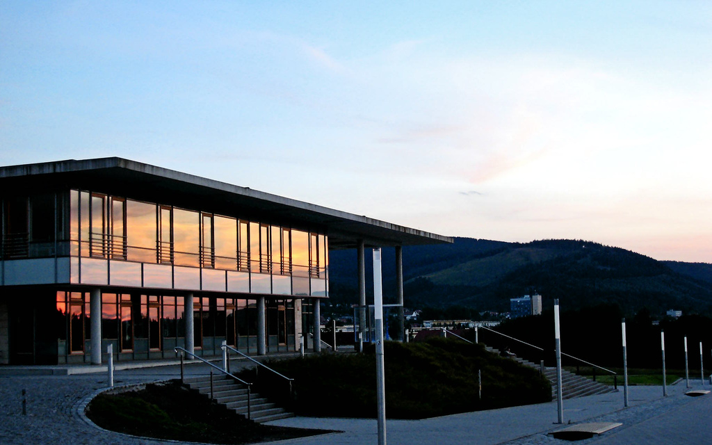 The Newtonbau building at the Technical University of Ilmenau, an institution of higher learning in Ilmenau, Thuringia, Germany.